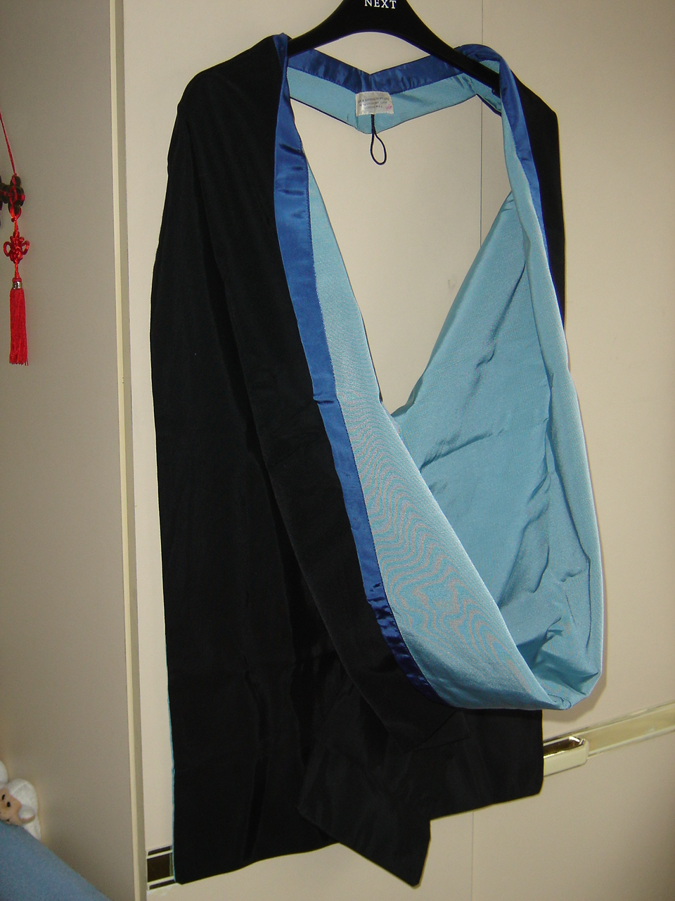 The academic gown of a MSc from the University of Nottingham.